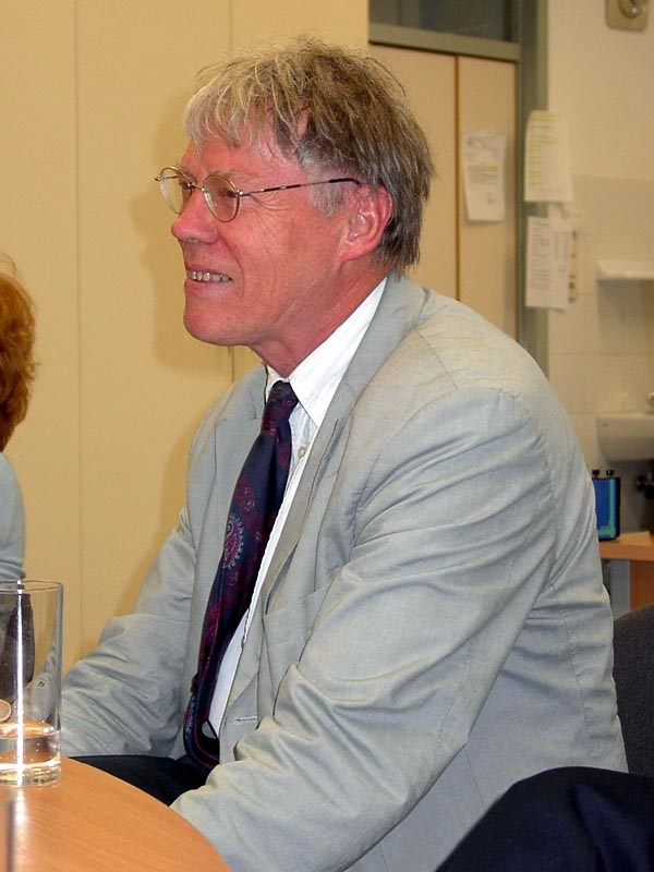 Ferjan Ormeling, emiritus professor of cartography at Utrecht University (nl)